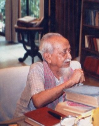 Bengali Intellectuals, Prof. Abdur Razzak